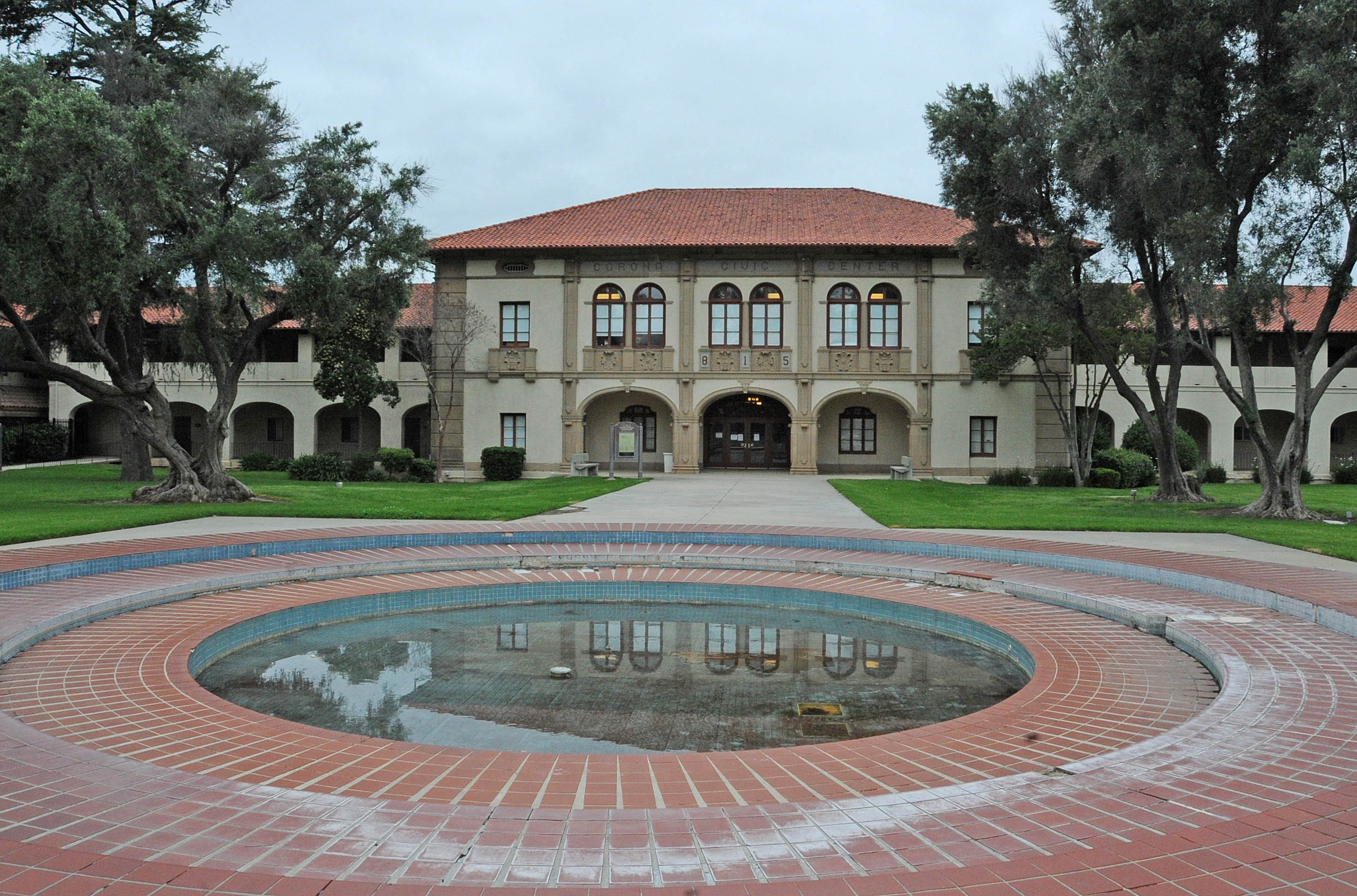 AKA CORONA HISTORIC CIVIC CENTER; BUILT IN 1923 IN MEDITERRANEAN REVIVAL STYLE; USED UNTIL 1960 WHEN A NEW HIGH SCHOOL WAS BUILT AND THE CAMPUS BECAME THE CIVIC CENTER